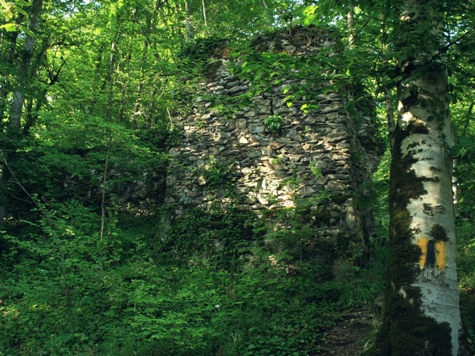 Machi fortress, Lagodekhi Municipality, Kakheti, Georgia. 8th–9th century.